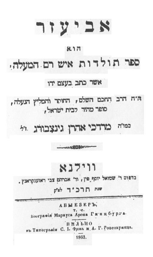 Front page of "Aviezer", an autobiography of Mordechai Aaron Guenzburg (1795-1846), publisheed Vilna 1863